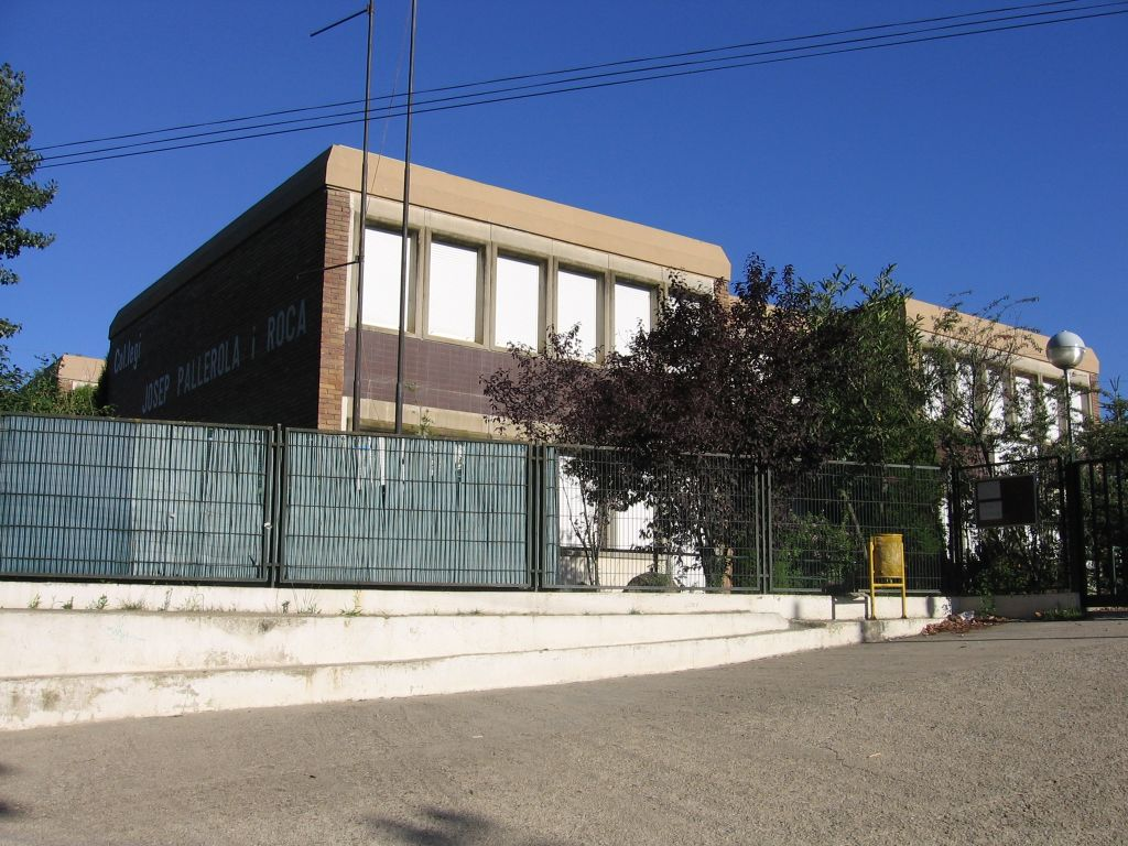 Col·legi Josep Pallerola i Roca